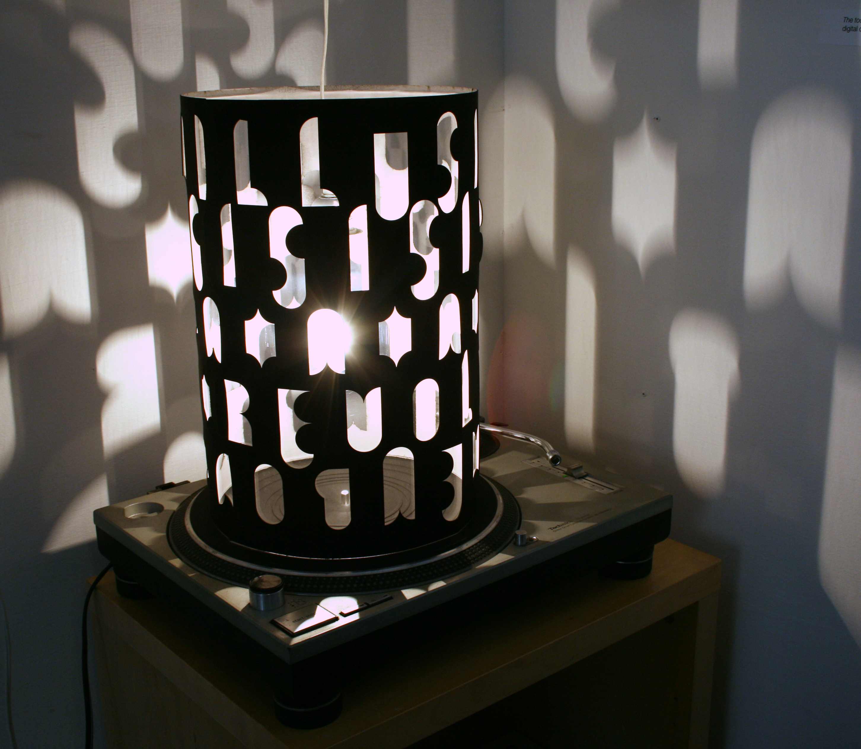 "a dream machine created by Gareth Spor with Raimundas Malasauskas"